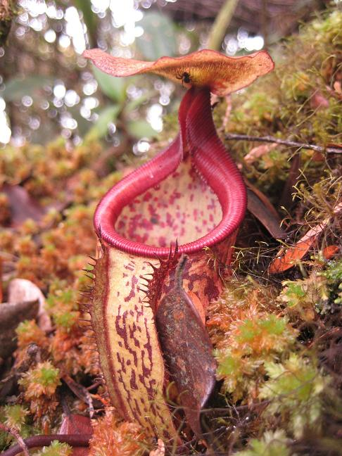 Nepenthes macfarlanei. Picture by David Tan (